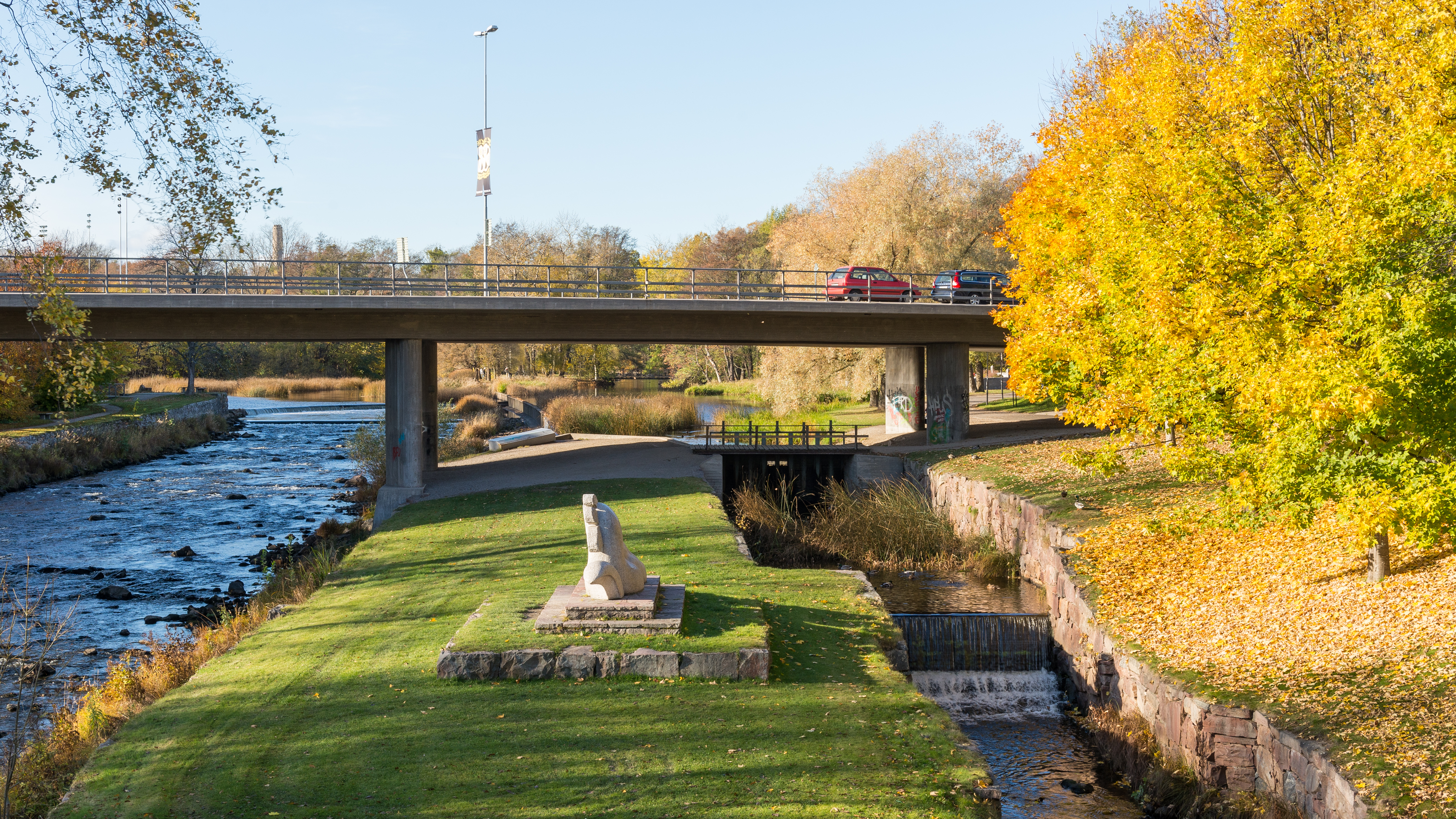 Kvarnholmen and Kvarnbron, Gävle. The sculpture Auroras seger in the middle.